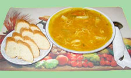 joumou soup Kreyòl ayisyen : soup joumou